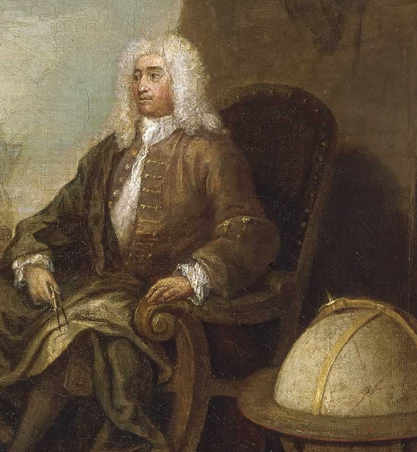 Woodes Rogers, former Pirate, Governor of the Bahamas. The son of the Governor presents his father to the right with plans for the port of Nassau.